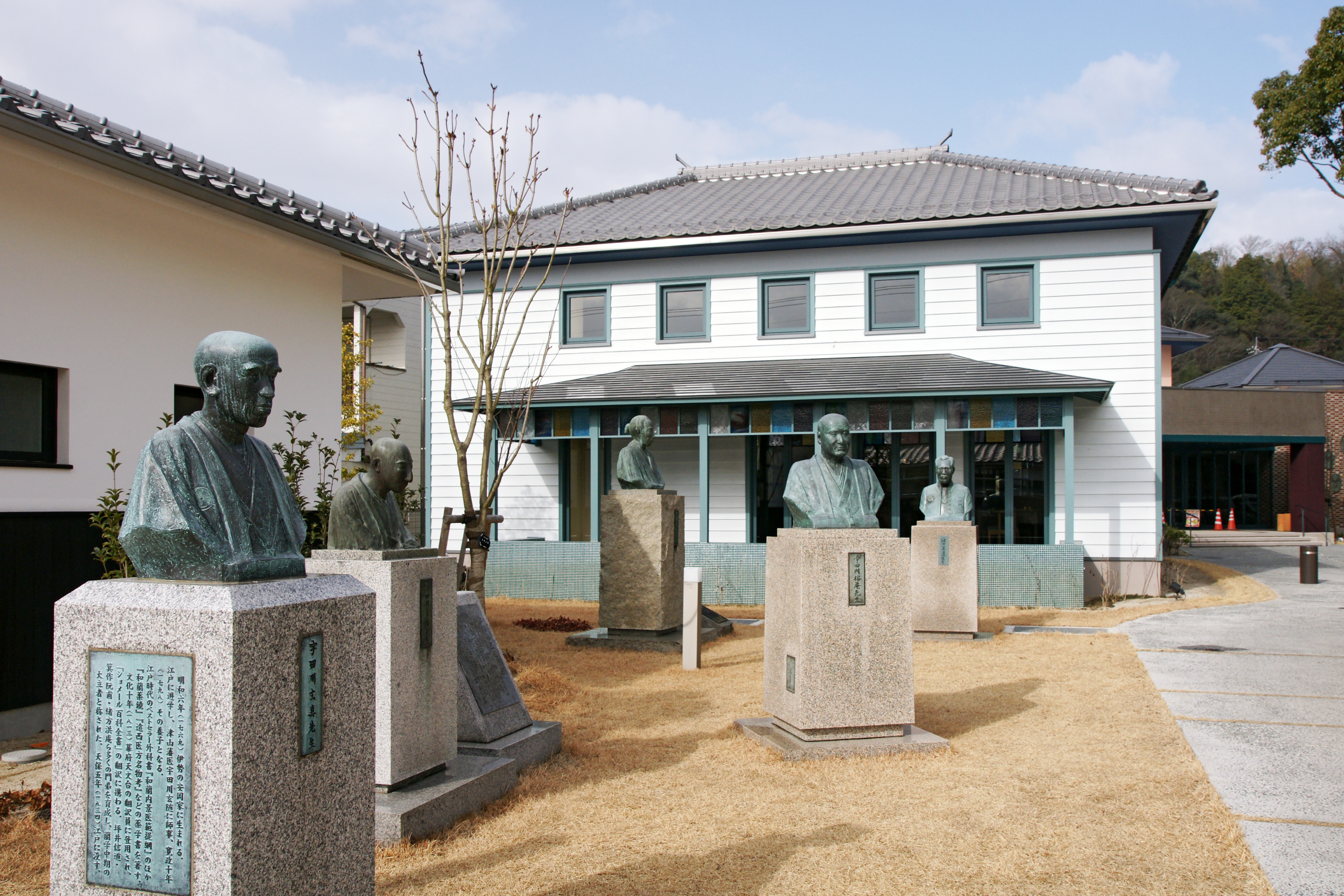 Tsuyama Archives of Western Learning in Tsuyama, Okayama prefecture, Japan.